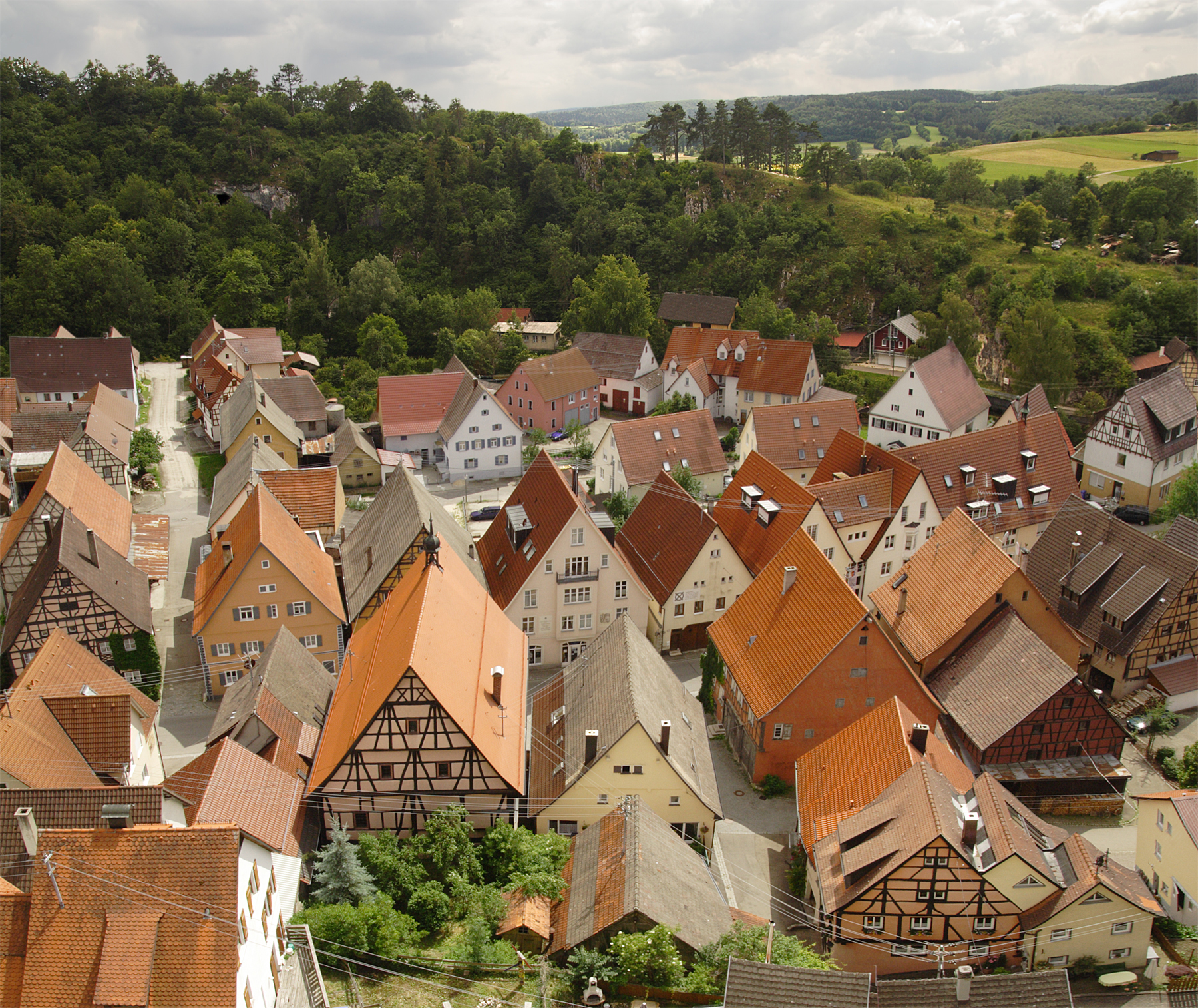 The scenic mediaeval Altstadt of Veringenstadt, Swabian Alb, in the midst of the rocky water gap of river Lauchert. Houses of the Altstadt are crowding together on the embankment of the point bar side of the river. The black hole in the big woody river-cut bank of the Lauchert is the cave portal of "Nikolaushöhle". The visible part behind the cut bank is the "Lauchertgraben".